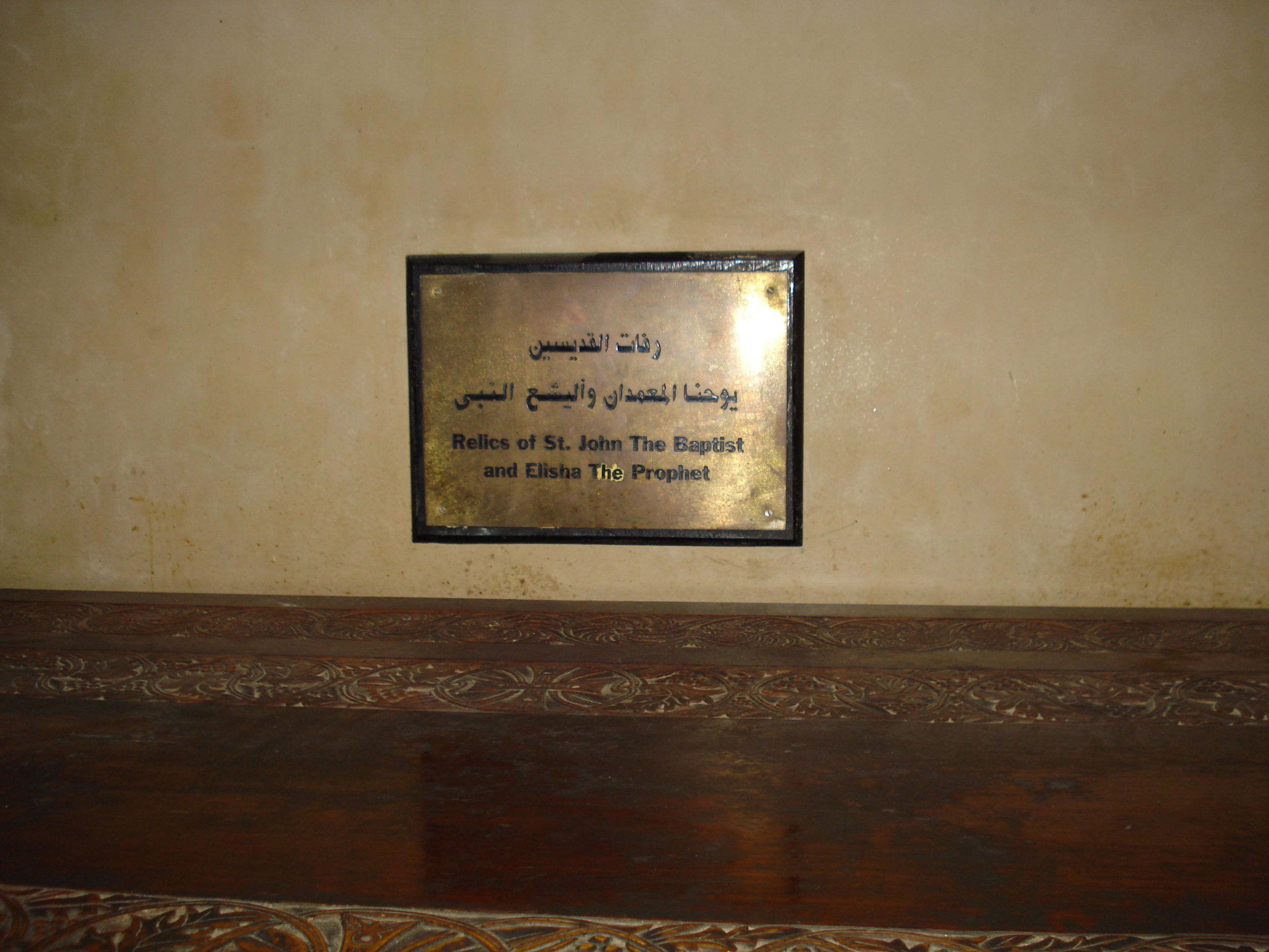 This is the final resting place of what is believed to be the discovery of St. John the Baptist's relics. They are housed in a Coptic Christian Orthodox monastery in Lower Egypt. With permission the monks will allow you to see the original tomb. The casket is prayed over by the faithful.